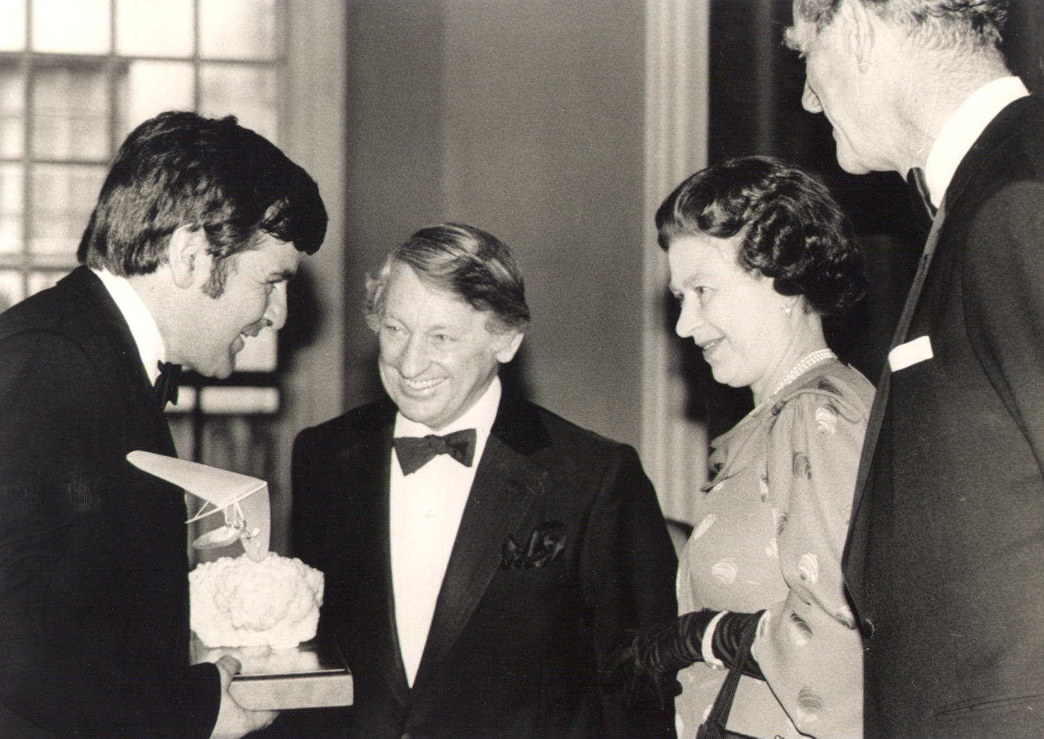 Brian Milton receives the first national trophy for hang-gliding from the Queen at the Banqueting House in Whitehall, London. He won this Royal Aero Club award in 1985 for his services to British hang-gliding during the first ten years of this sport.